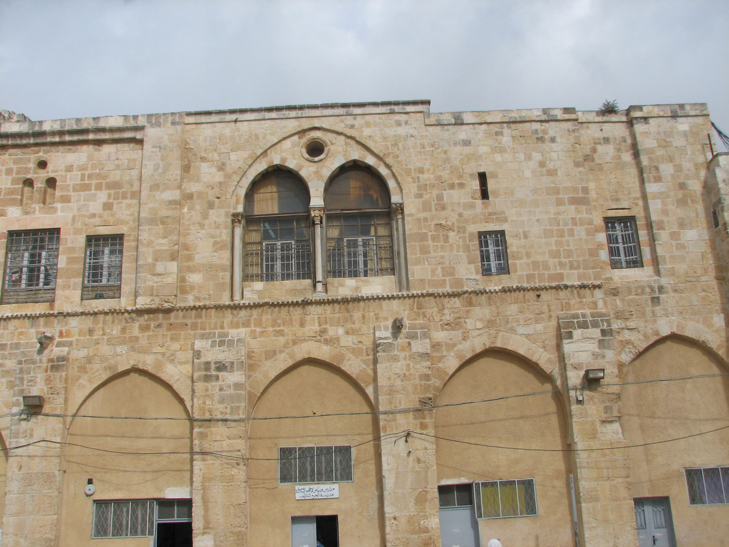 Al-Aqsa Mosque